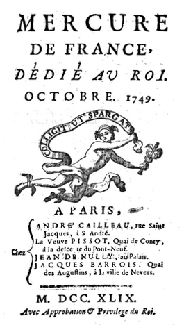 Cover of the October 1749 issue of the Mercure de France. It was this issue that contained the announcement about the essay competition sponsored by the Académie de Dijon that led Jean-Jacques Rousseau to write the Discourse on the Arts and Sciences.